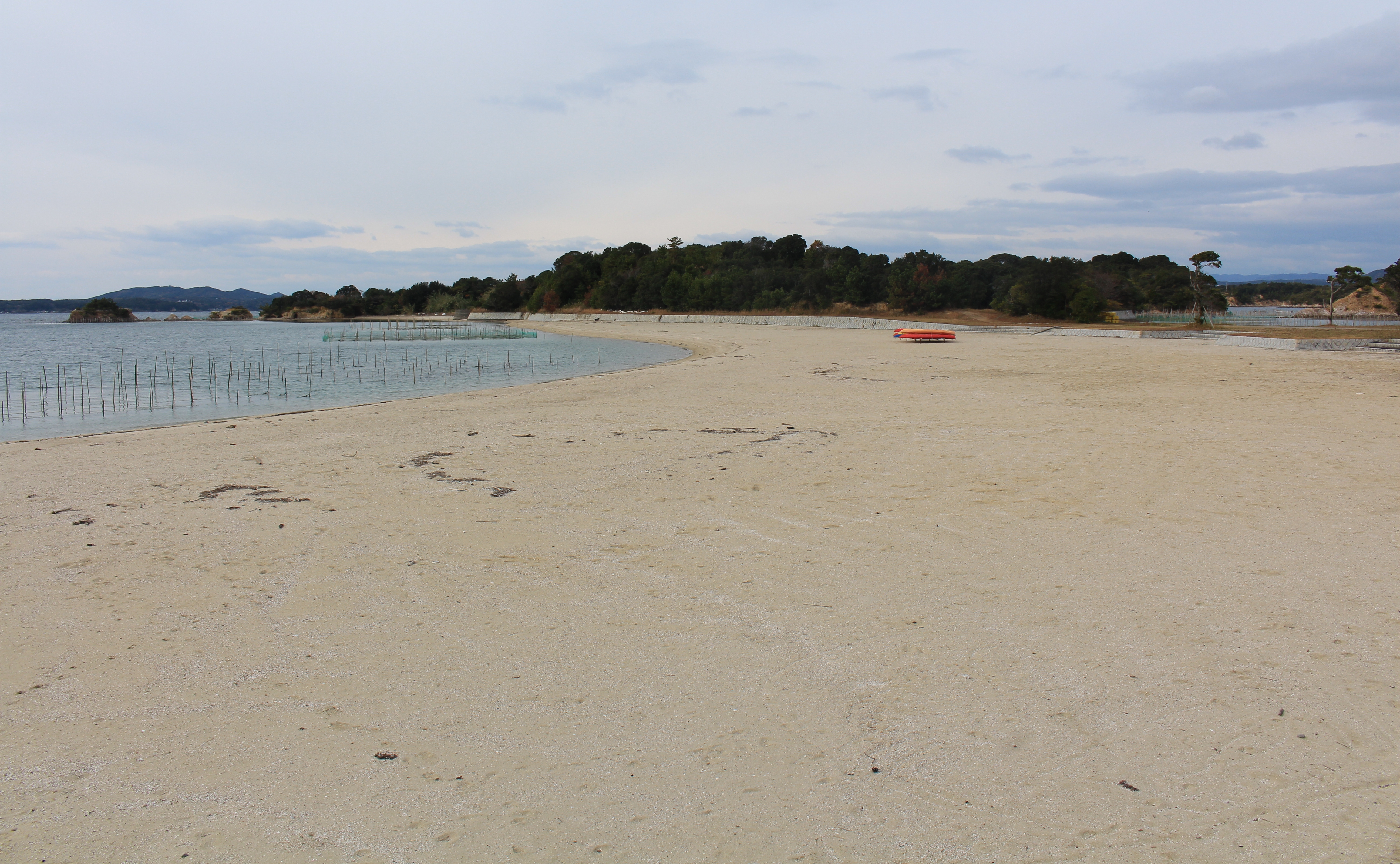 Jirōrokurō Beach in Ago Bay, Shima, Mie prefecture, Japan.